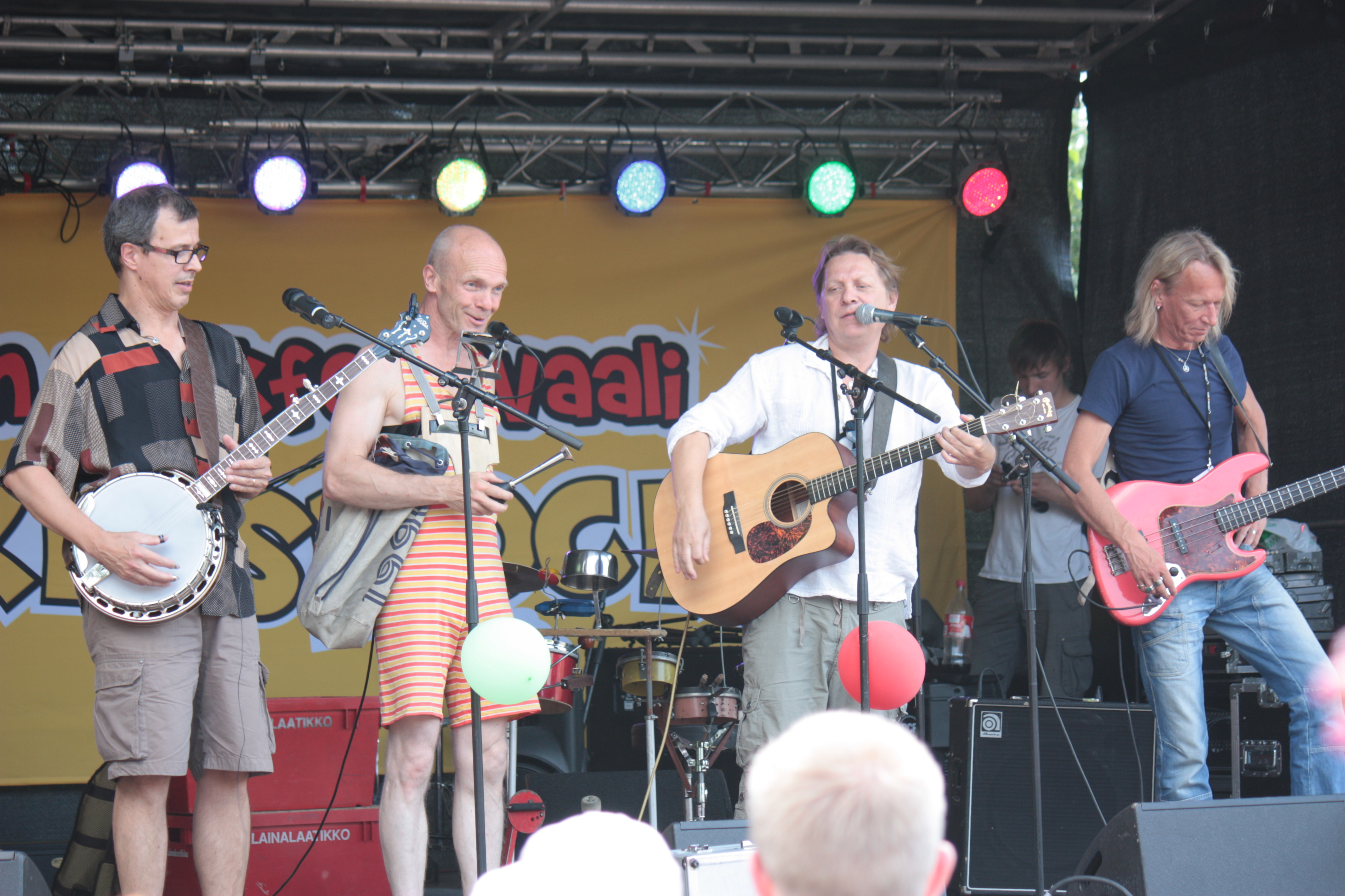 The children's band Herra Heinämäen Lato-orkesteri performing in Seikkisrock festival in Seikkailupuisto park, Turku, Finland